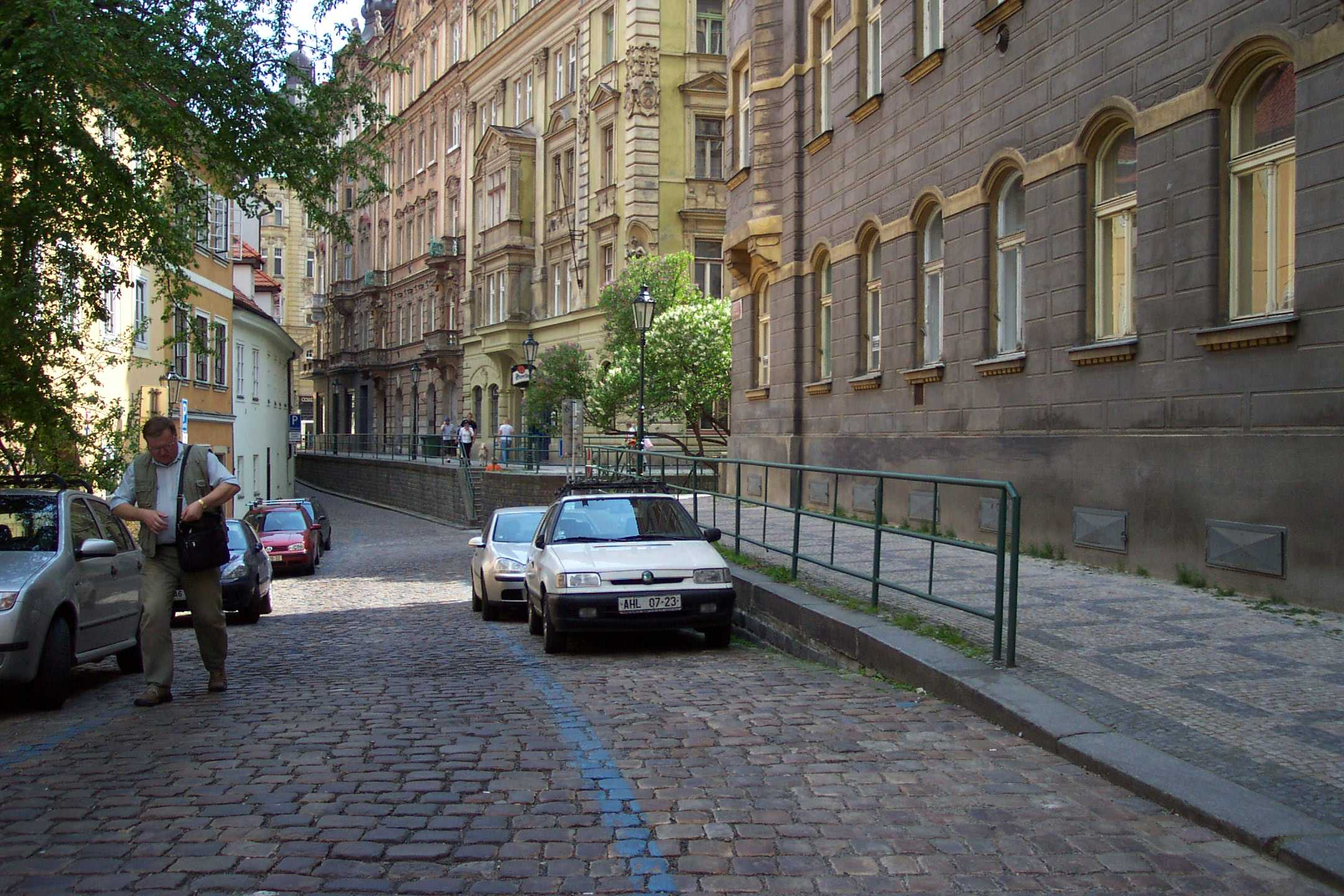 Difference in basis ground between 19. century houses and the older ones (center of Prague) - Výškový rozdíl mezi asanovanou a neasanovoanou zástavbou v centru Prahy